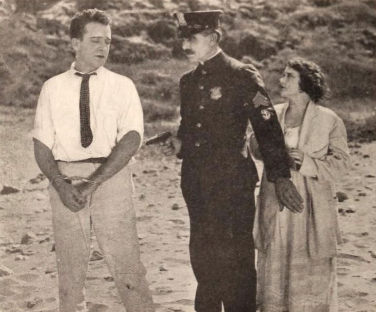 Still from the American romantic comedy film The Off-Shore Pirate (1921) with Jack Mulhall, an unidentified actor, and Viola Dana, on page 76 of the February 26, 1921 Exhibitors Herald.